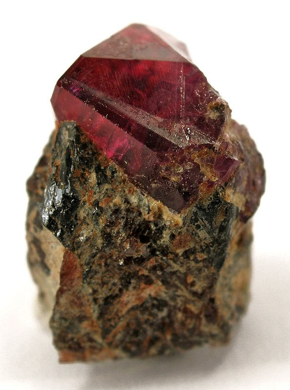 Corundum (Var.: Ruby) Locality: Winza, Mpapwa, Mpapwa (Mpwampwa) District, Dodoma region, Tanzania (Locality at ) Size: 1.8 x 1.3 x 1.1 cm. This is a new ruby mine, and has been producing amazing bi-colored red/purple rough for the gem trade recently but few crystals have been preserved. This matrix hosts a sharp, gemmy, intensely colored crystal of nearly 1 cm. It is obviously twinned. In shifting lights, these change color and can show a bit of purple/blue color, even.